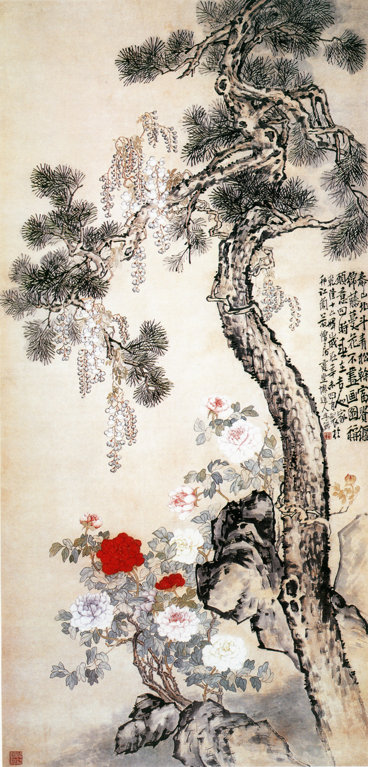 Pine Tree, Stone and Wisteria, Li Shan, Qing Dynasty, China, Shanghai Museum